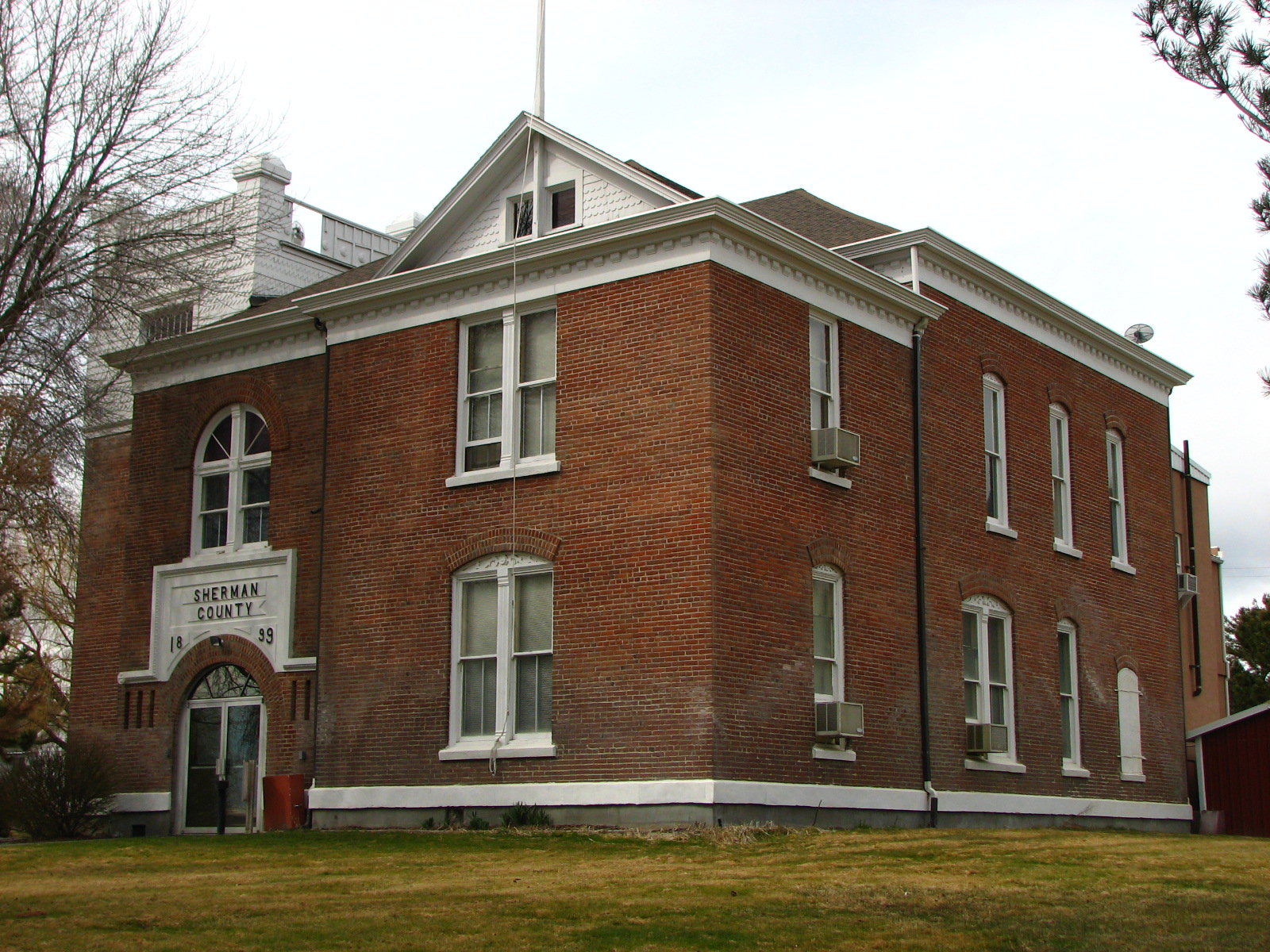 The historic Sherman County Courthouse (built 1899), located at 500 Court Street in Moro, Oregon, United States, is listed on the US National Register of Historic Places.